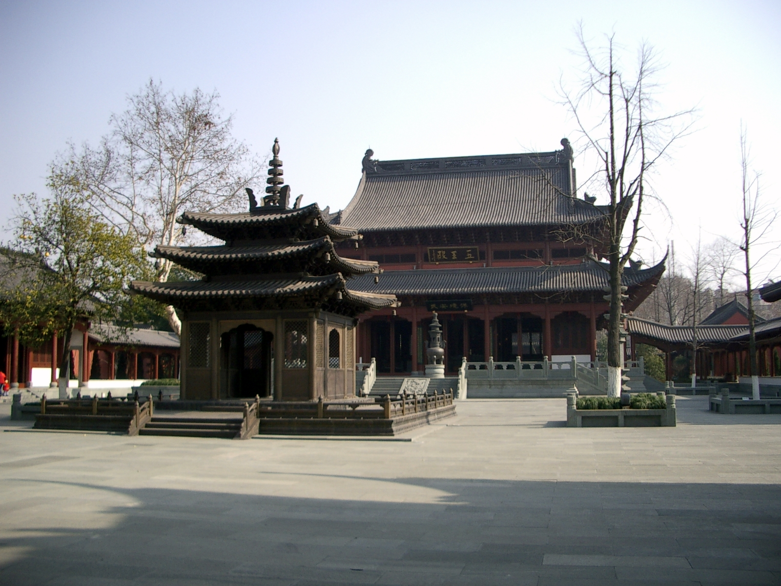 Qian King Temple in the West Lake in Hangzhou, China.